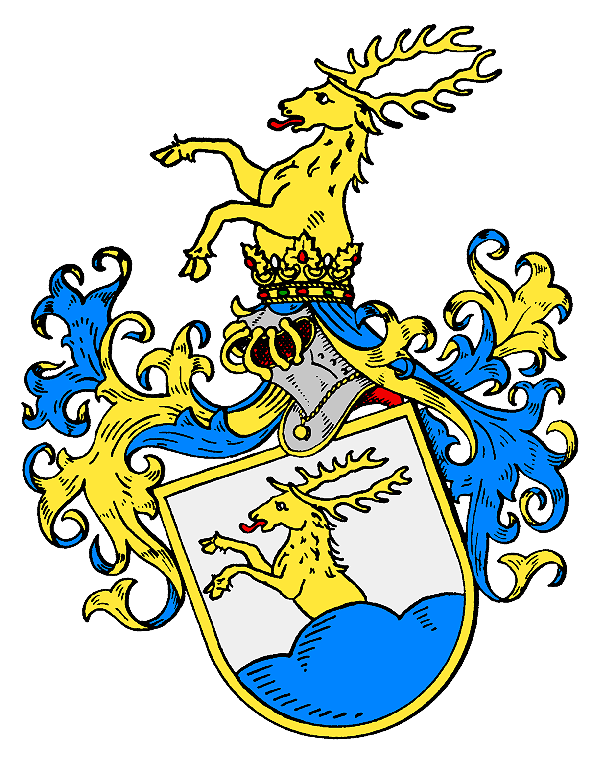 Coat of arms of the von Hirschheydt (Hirschheid, Hirschaid, Hirscheid) family.